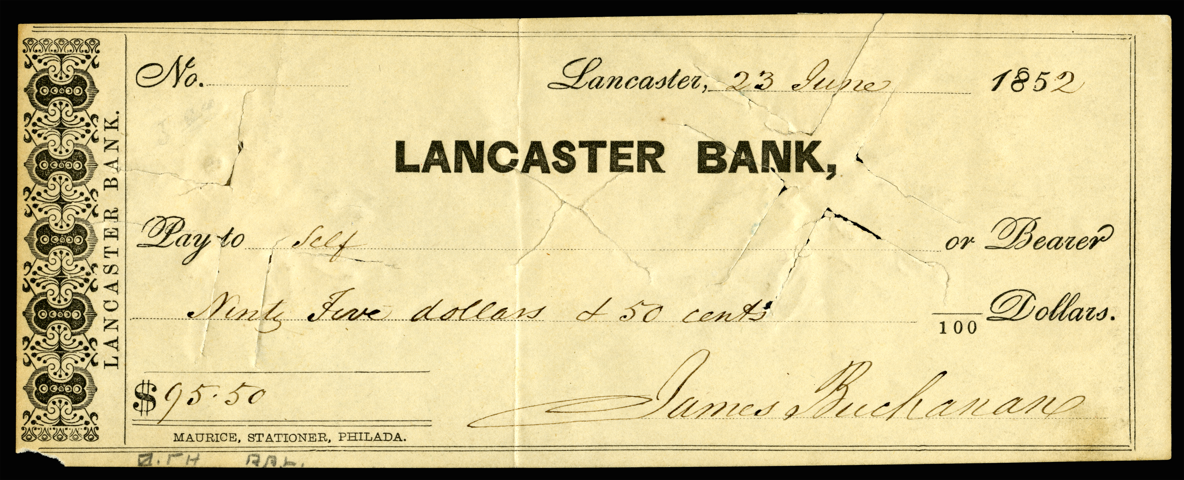 A signed check by James Buchanan (15th President of the United States) while serving as President of the Board of Trustees of Franklin & Marshall College.